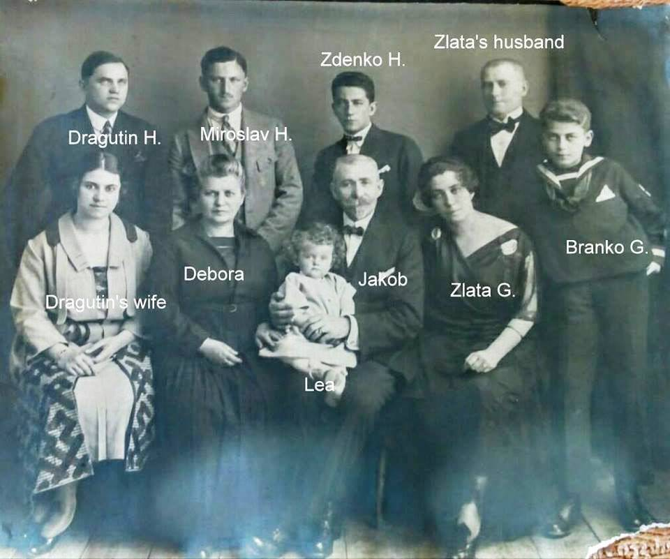 Jakob & Debora Hirschl and their family from Križevci circa 1923. Jakob Hirschl was the chairman of "Chevra kadisha" of the Jewish community from 1899 till April 1941. Deborah Hirschl was a-co founder and Head of the Women's Organization of the community from 1920 till 1941. Zdenko Hirschl was the head of the jewish youth organisation "Beney Israel", and A zionist activist.